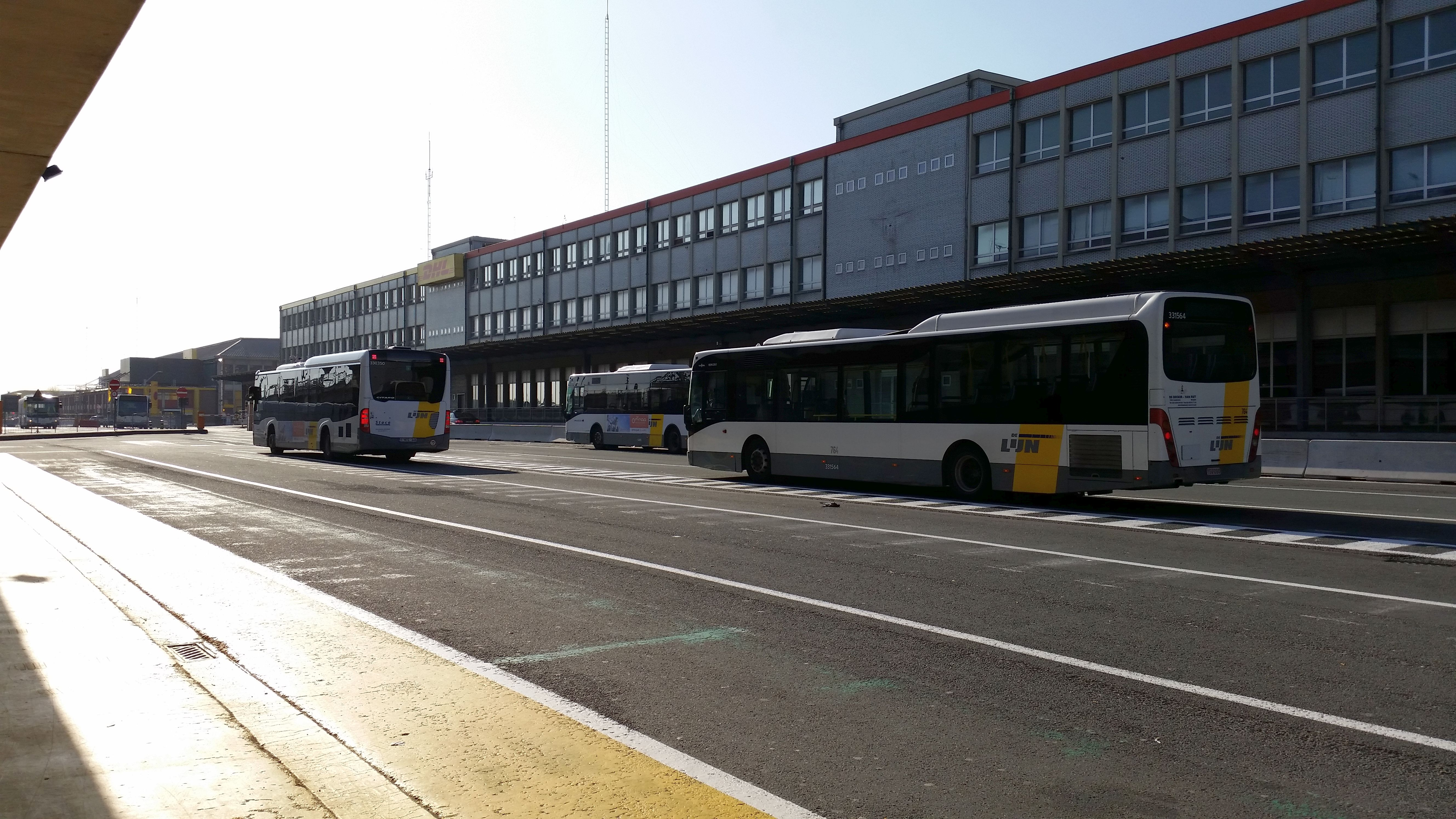 De Lijn buses in the depot of the Brussels Airport Zaventem.